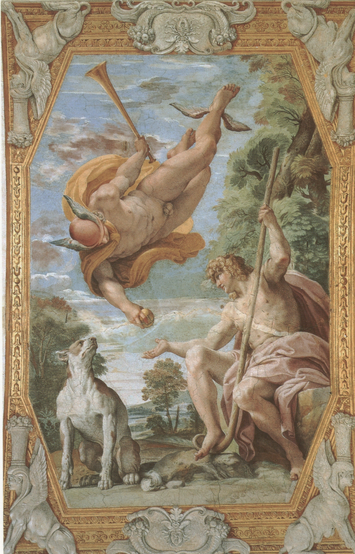 Annibale Carracci, Farnese Gallery